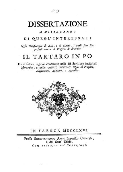 Title page